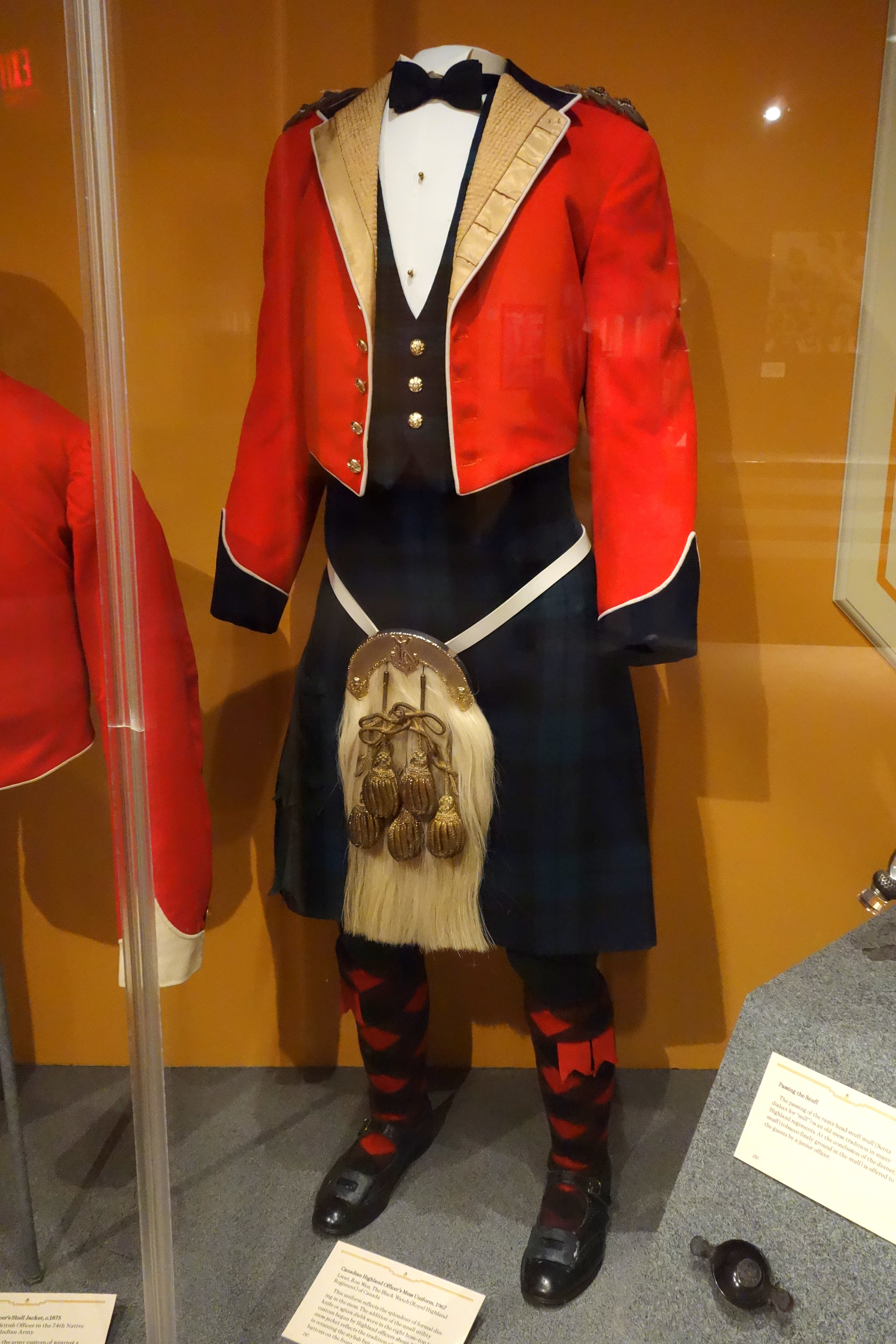 Exhibit in the Glenbow Museum, 130 9th Ave S.E., Calgary, Alberta, Canada. This government military uniform is in the public domain.